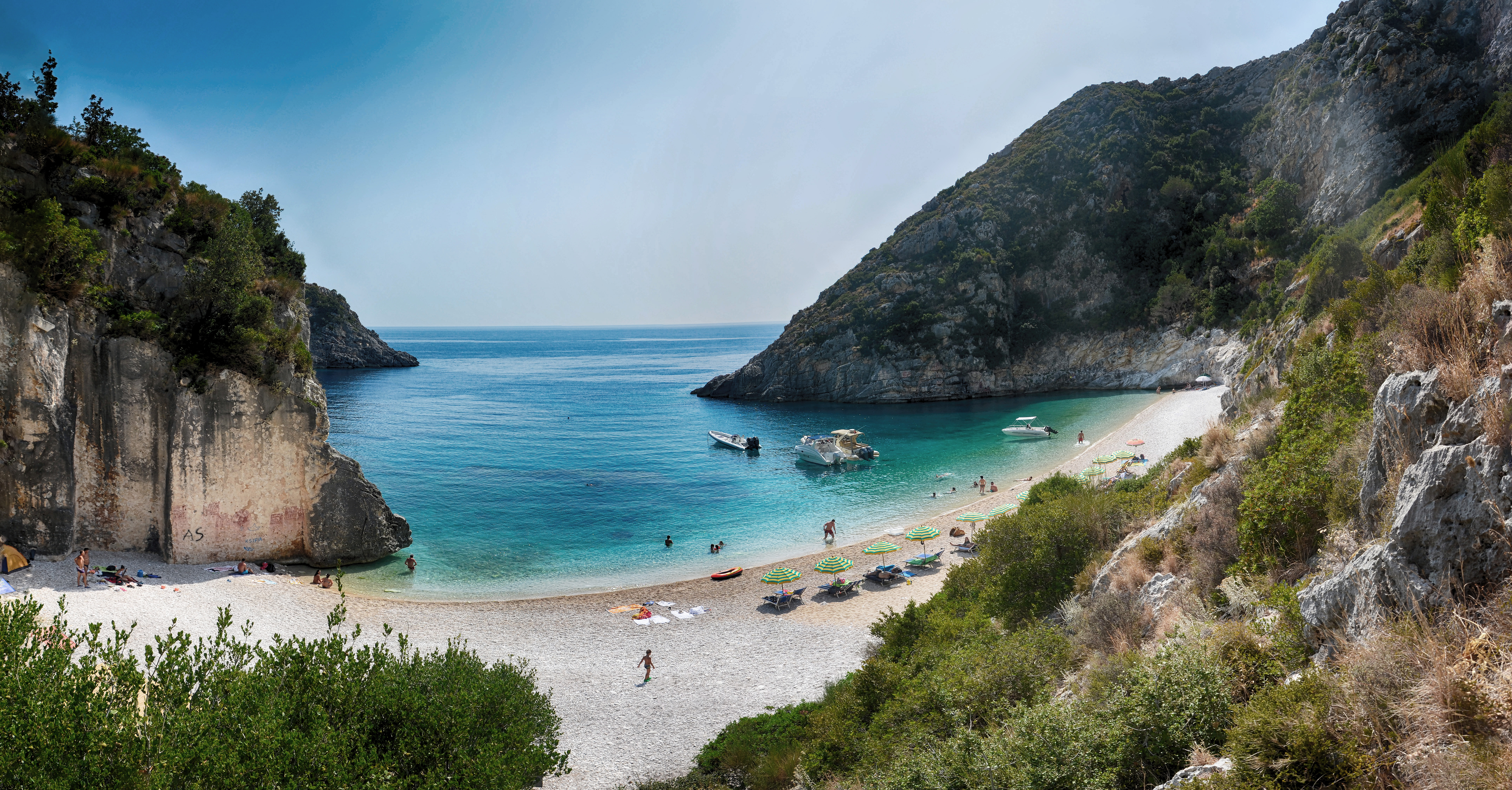 The Grama Bay in Albania